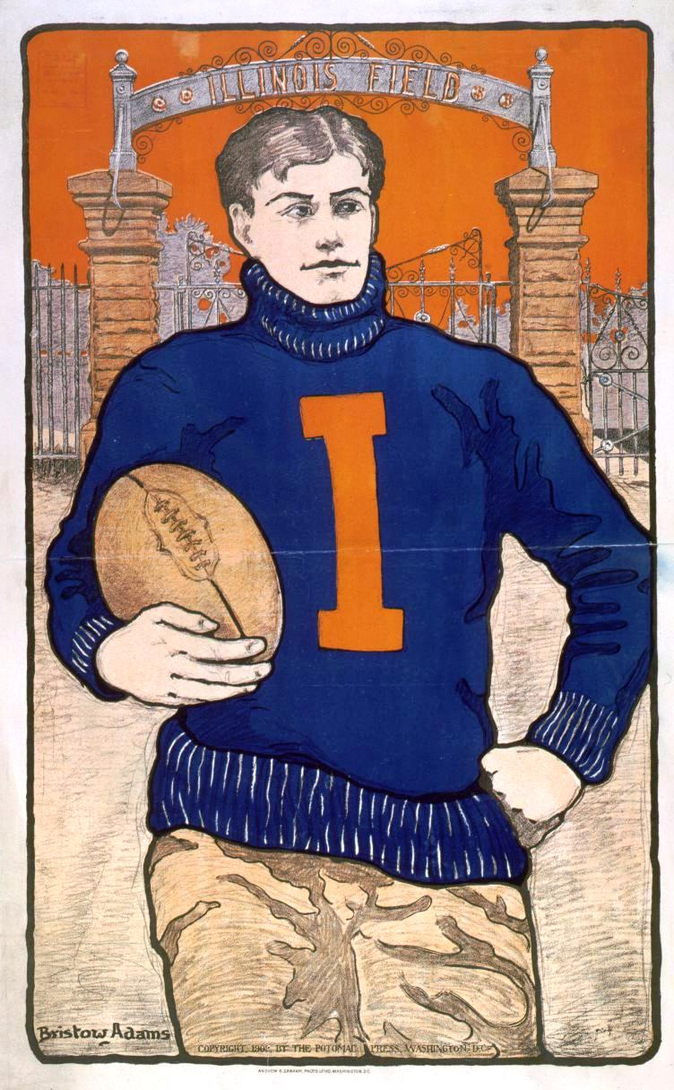 Original caption: "Football player, with letter I on sweater, holding football, in front of Illinois Field. 1 print (poster) : photo-lithograph, color."